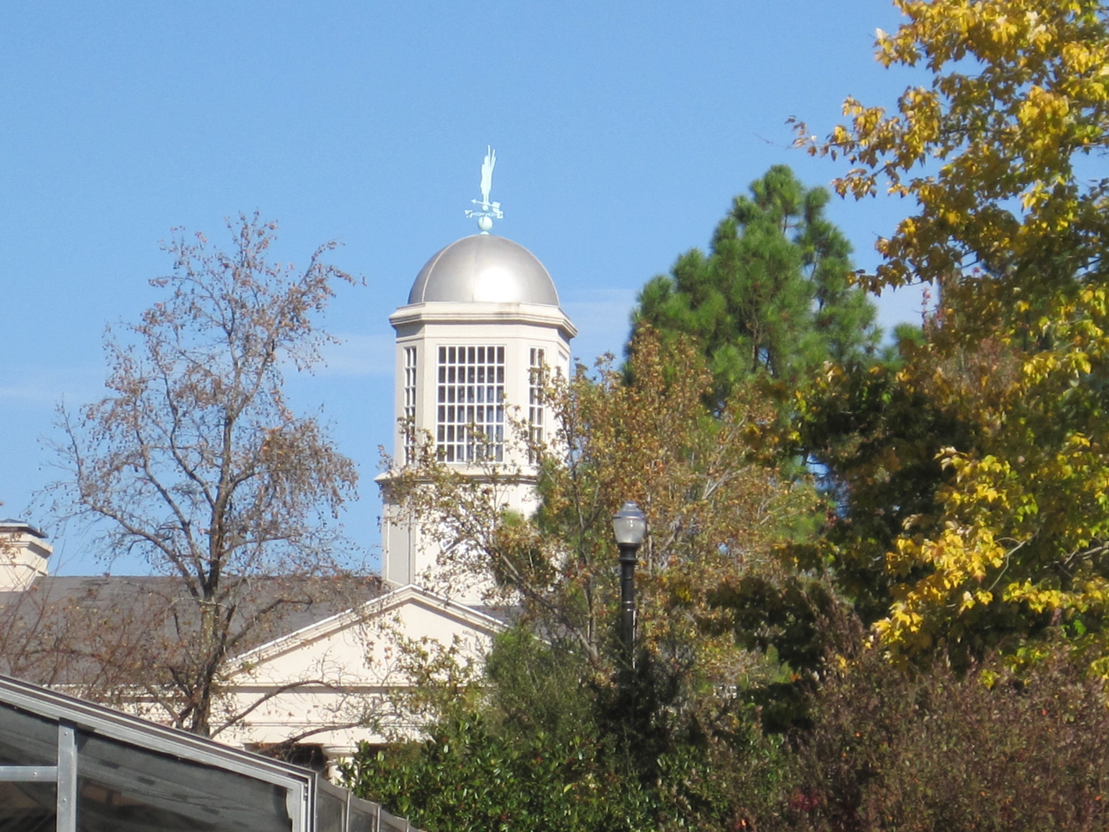 Lyon Building on the Lyon College campus